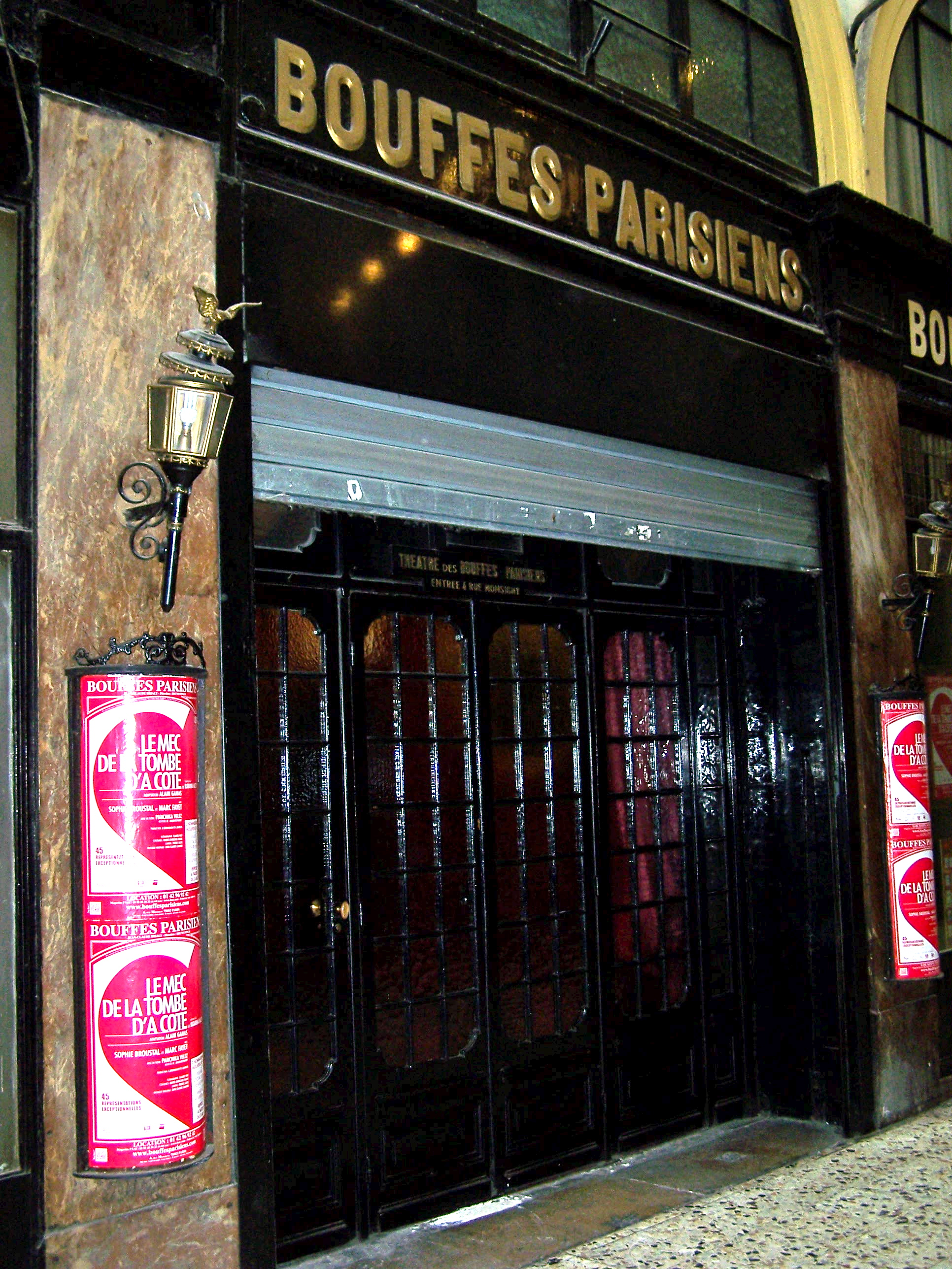 The Bouffes Parisiens theater at passage Choiseul in Paris, programming Le Mec de la tombe d'à côté de Katarina Mazetti